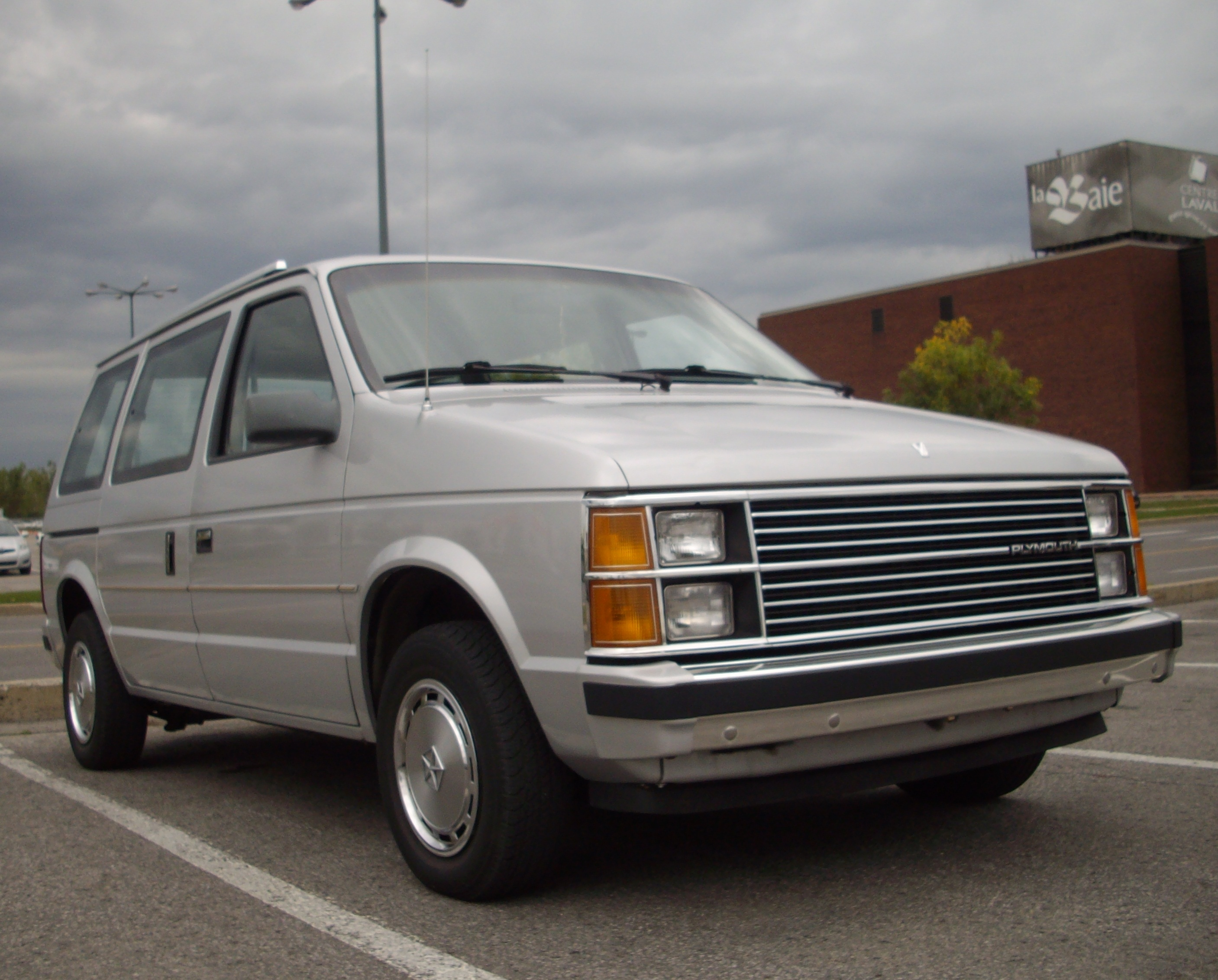 1984-1986 Plymouth Voyager photographed in Laval, Quebec, Canada.